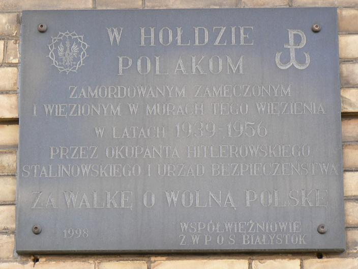 Prison in Białystok